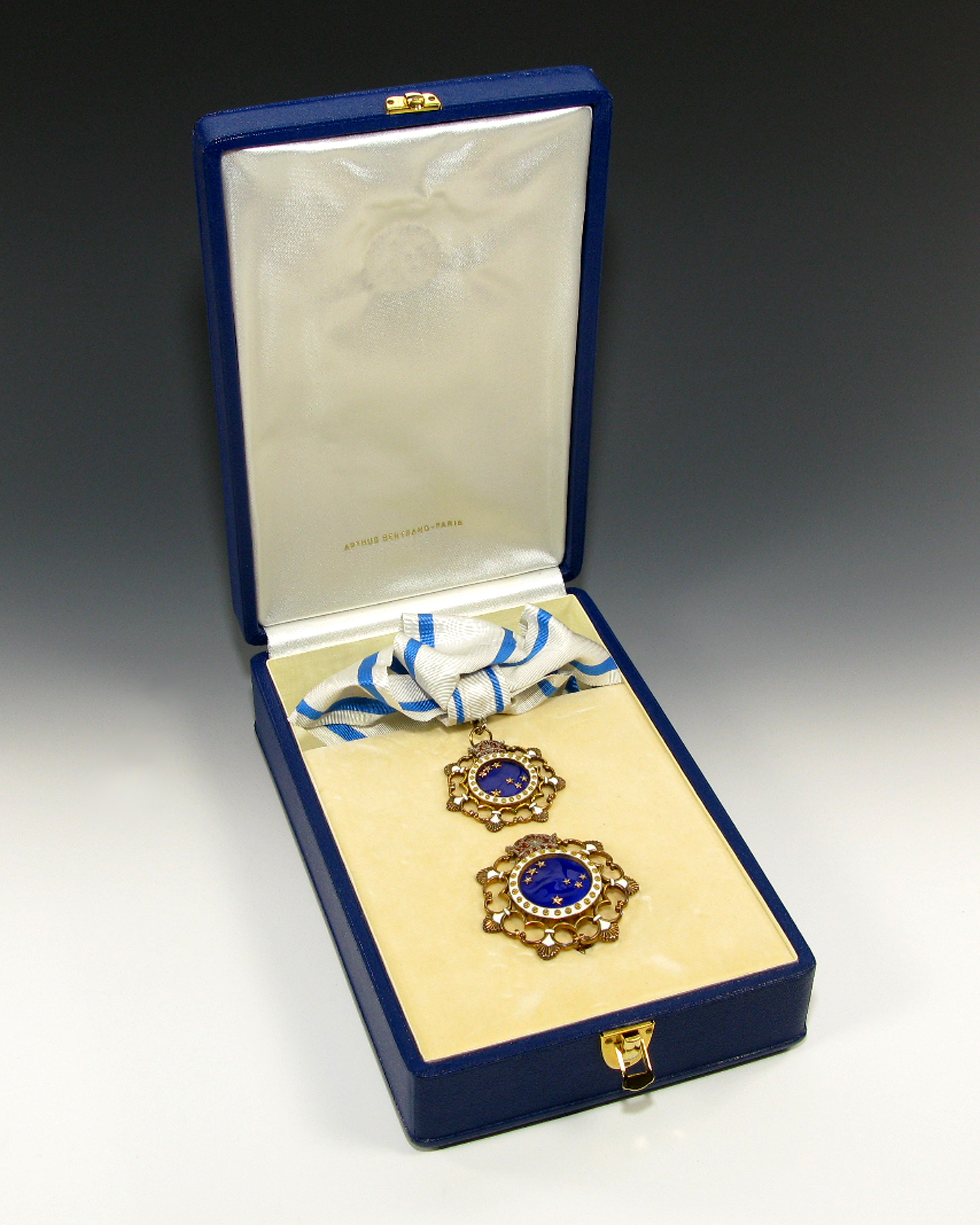 The "Order of Haft Paykar" includes two medals with one suspended on a blue and white sash. The medals feature a gold-tone, metal openwork design highlighted by white enamel touching. A blue-enamel center mounting displays the constellation "Pleiades" in seven diamond chips. Housed in a blue presentation case. Given to First Lady Betty Ford by the Shah of Iran and his wife upon their visit to the United States. Gift of Mohammad Reza Pahlavi, Shah of Iran.